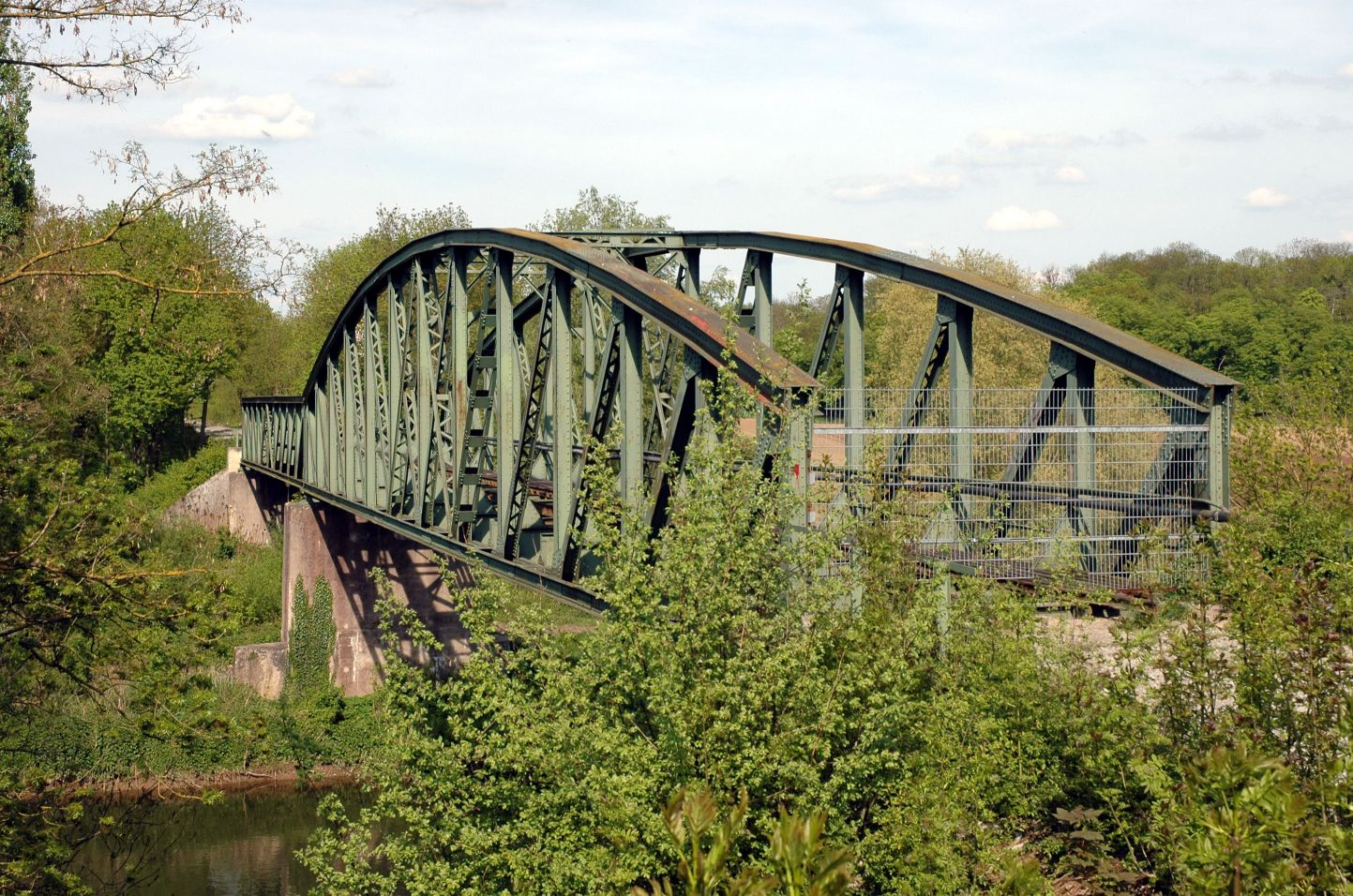 Kocher bridge of lower Kocher railway near Bad Friedrichshall-Hagenbach, abandoned in 1993